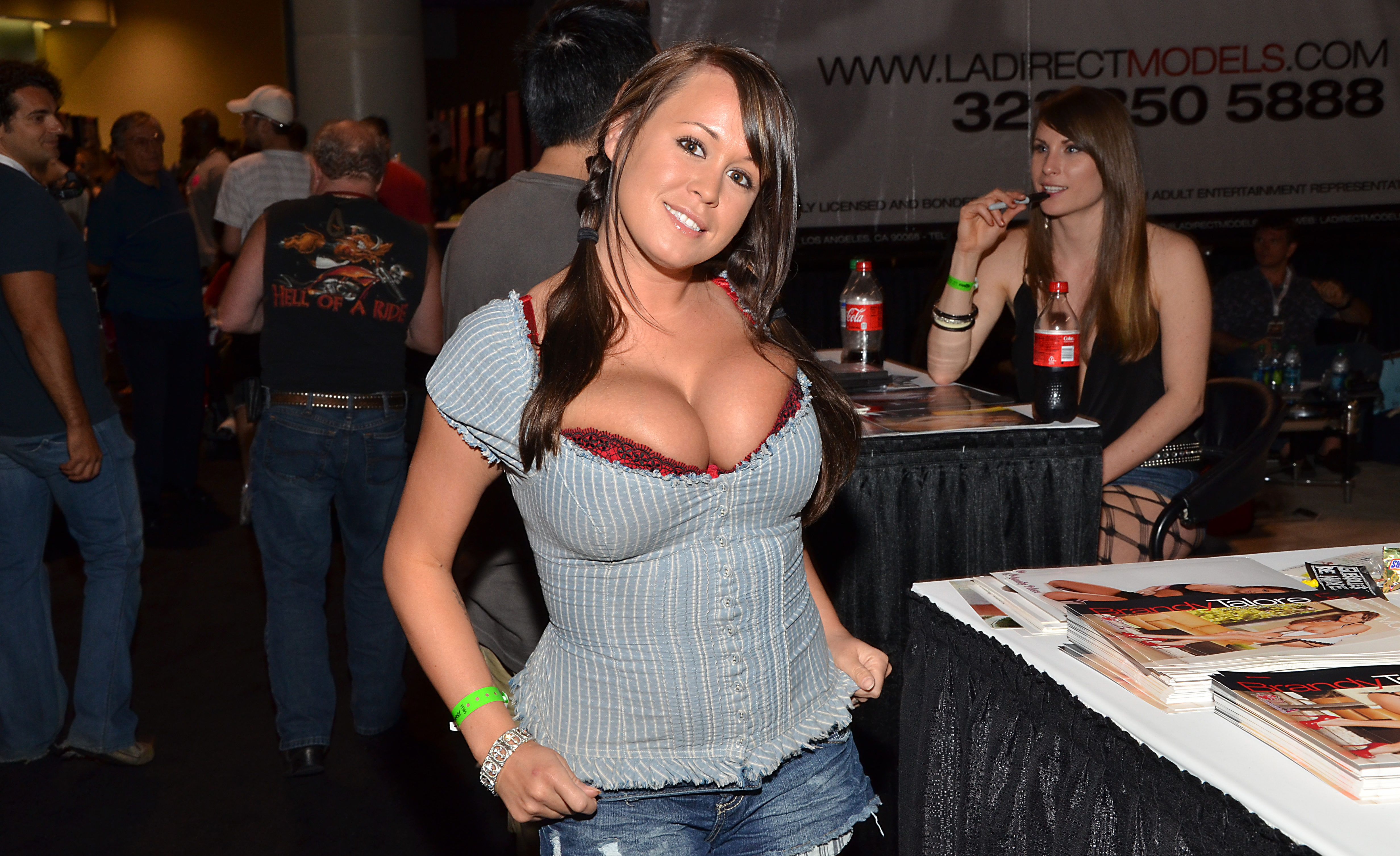 Brandy Talore at Exxxotica Miami Beach 2011